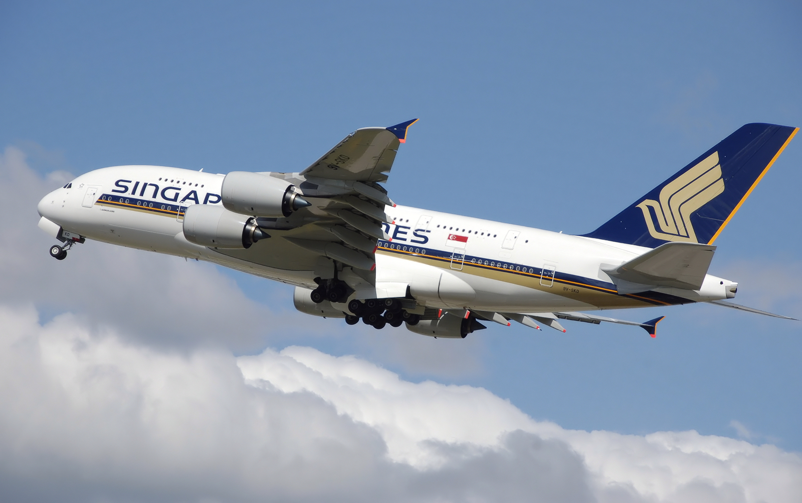 Singapore Airlines Airbus A380 (9V-SKD) takes off from London Heathrow Airport, England.